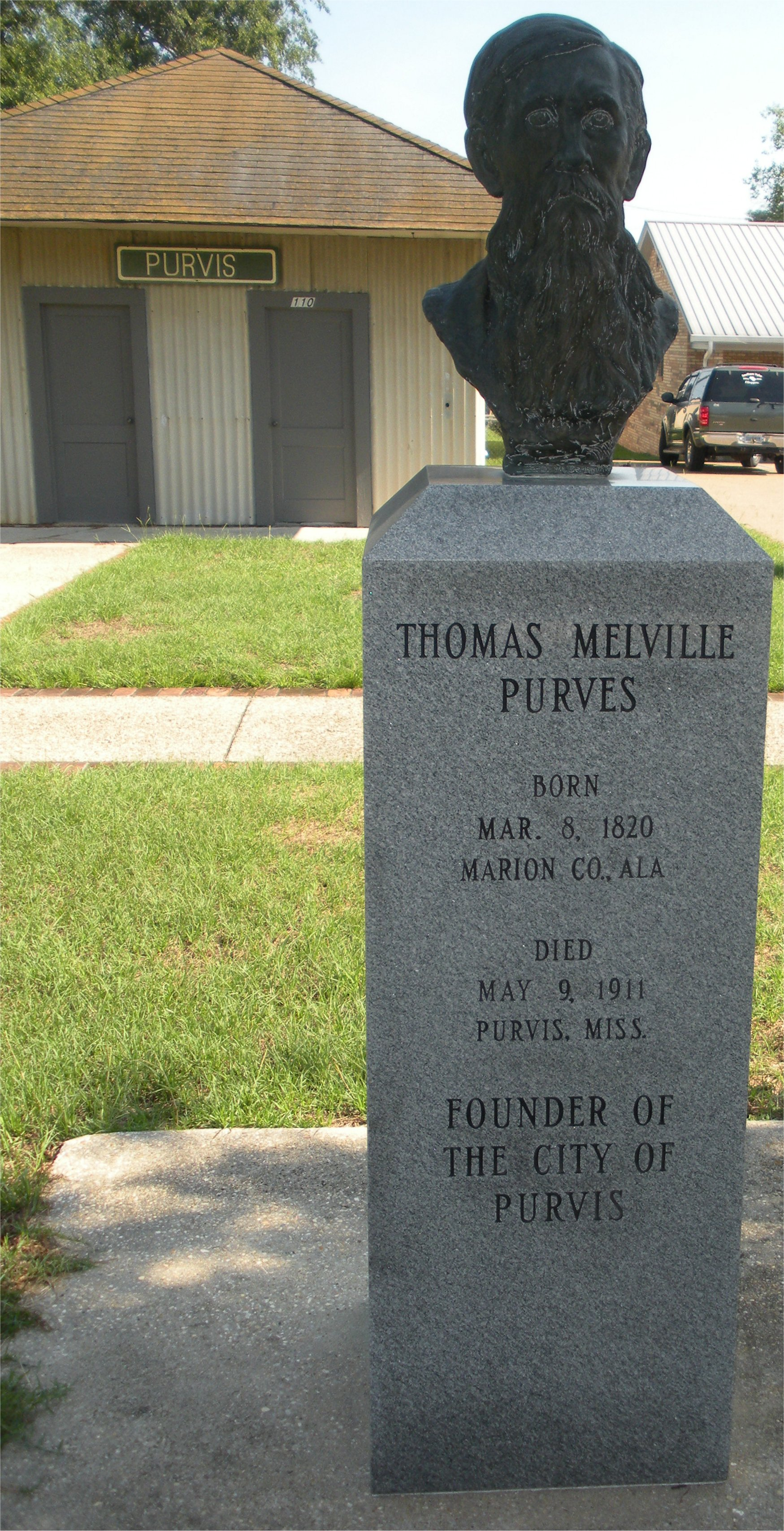 Bust of Thomas Purves sculpted by W.N. Beckwith in 1989. See Historic Purvis Depot to left of bust.